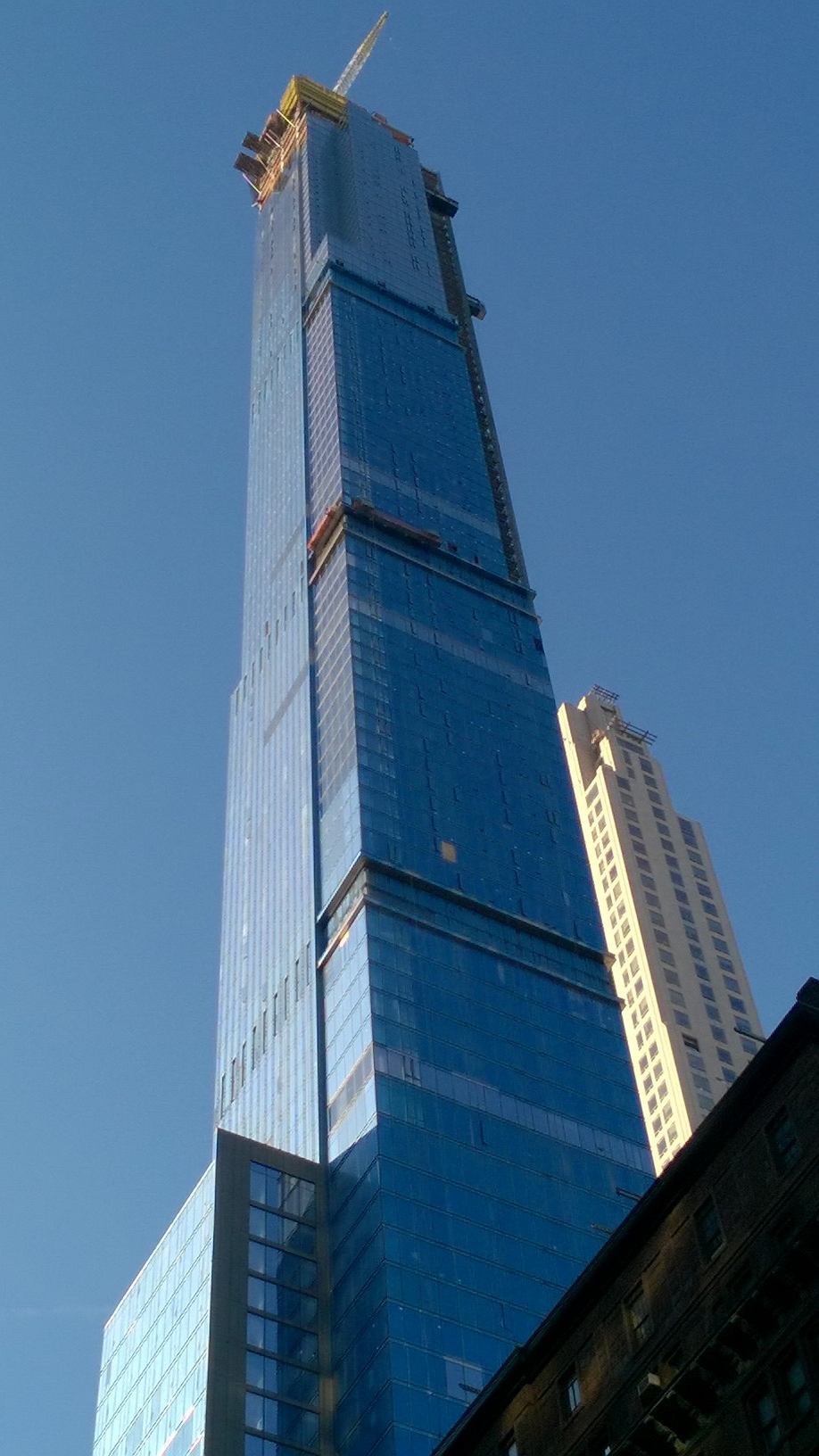 Central Park Tower under construction in NYC looking northwest from 57th Street on September 20, 2019.